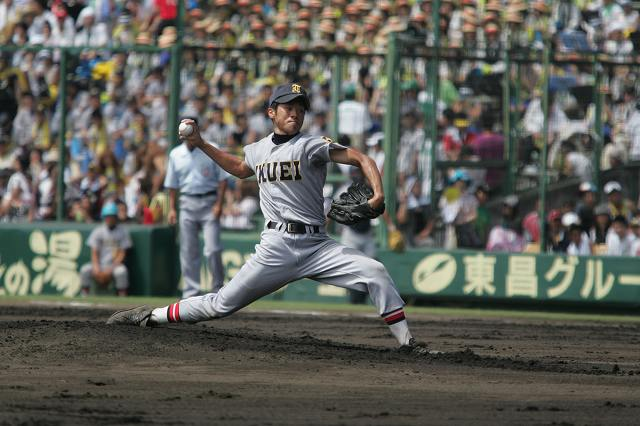 Yoshinori Sato, pitcher of the Sendai Ikuei High School, at Hanshin Koshien Stadium.